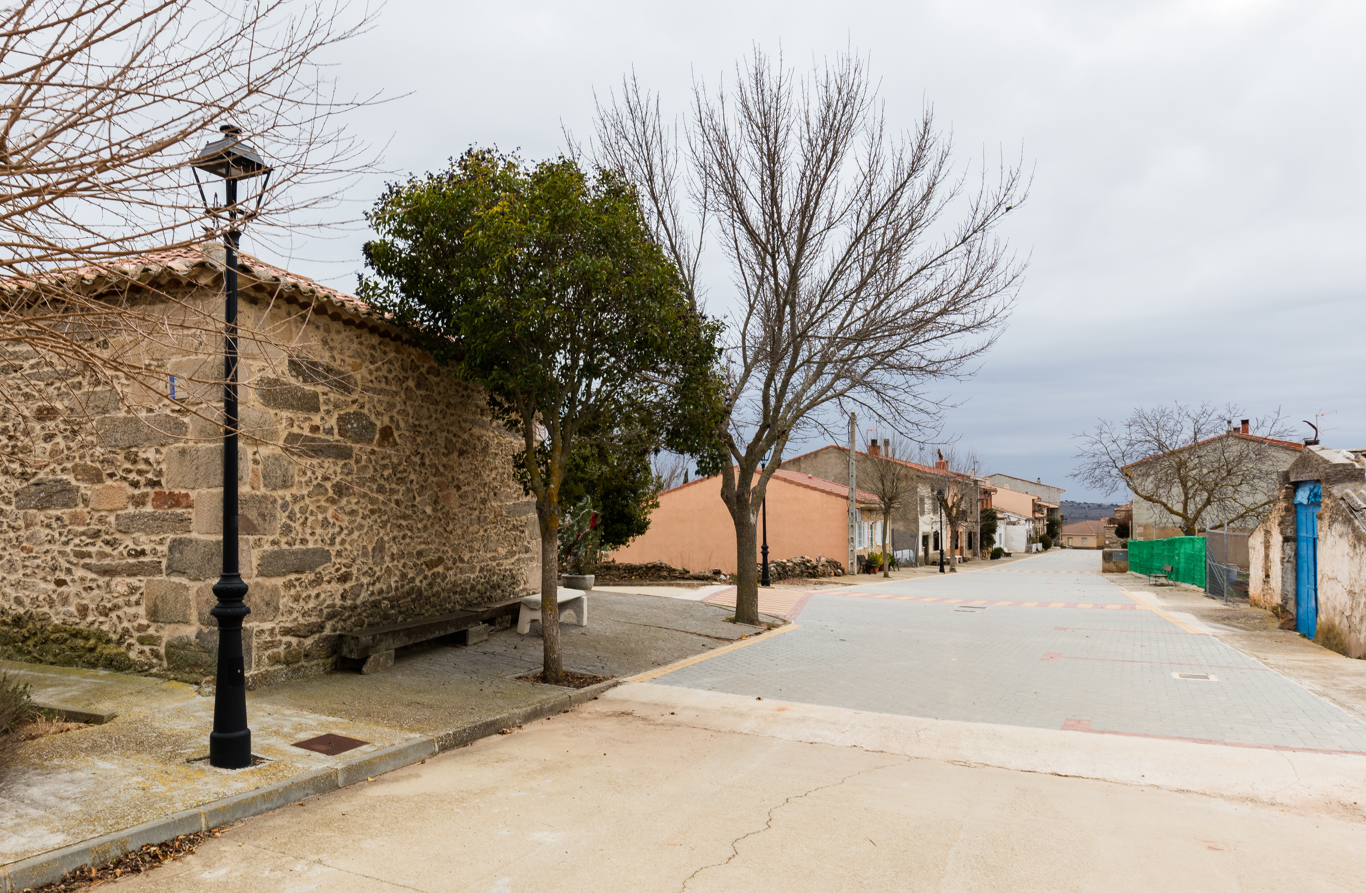 Rebollosa de Jadraque, Guadalajara, Spain